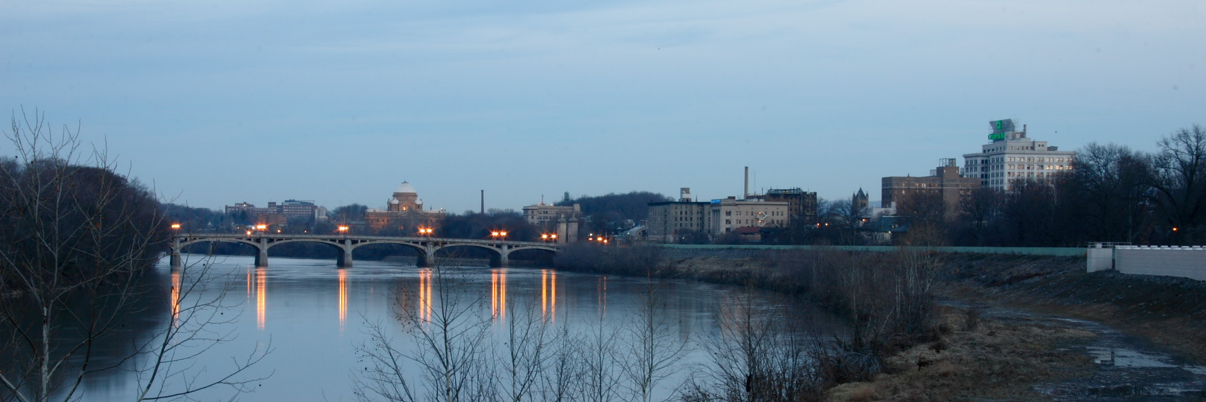 The Market Street Bridge crossing the Susquehanna River in Wilkes-Barre, PA. From left, largest buildings are General Hospital, Luzerne County Courthouse, King's College, Hotel Sterling Annex(during demolition/renovation), and Citizen's Bank Building. -Eric Evans